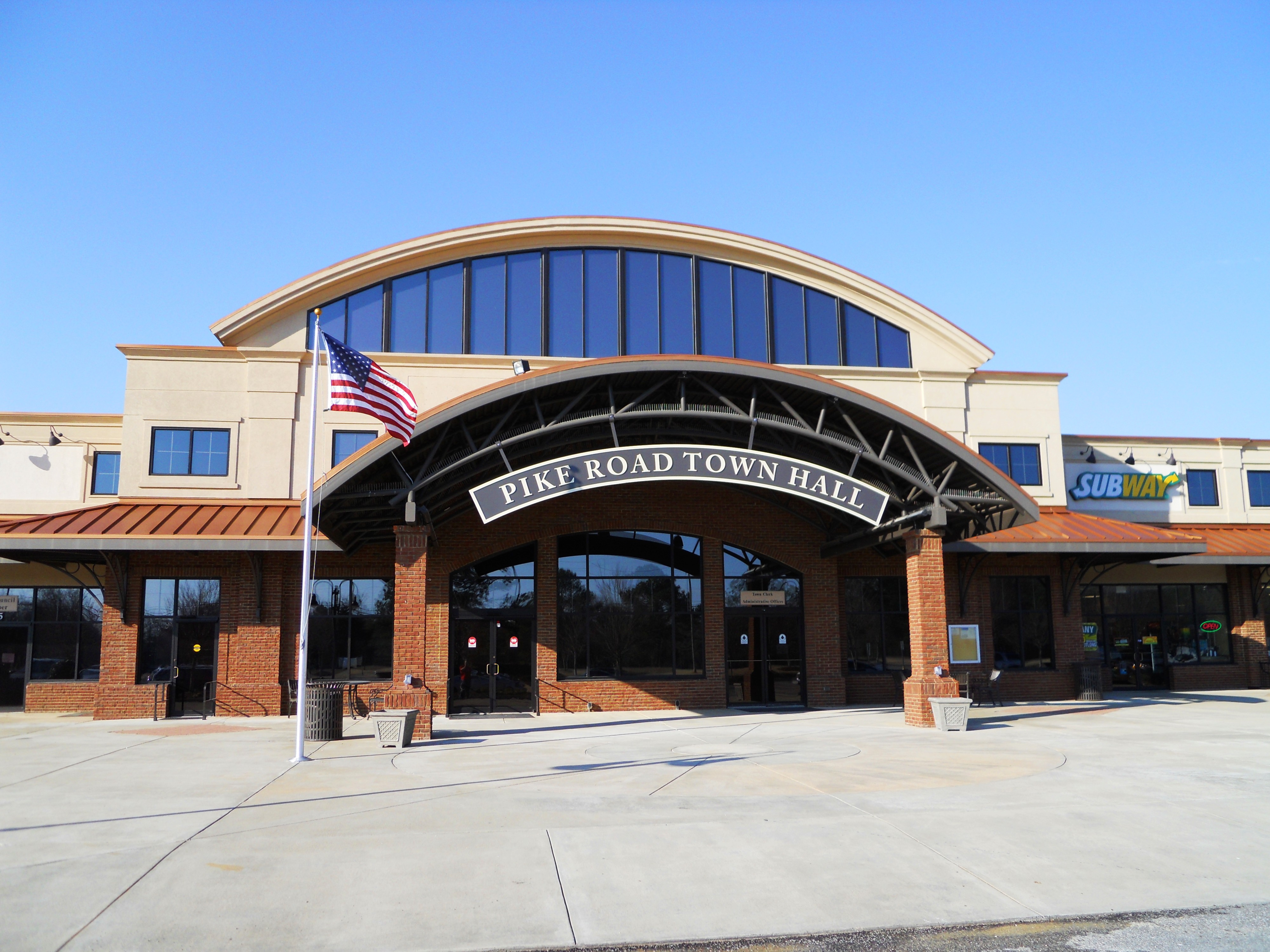 This is a photograph of the town hall of Pike Road, Alabama.